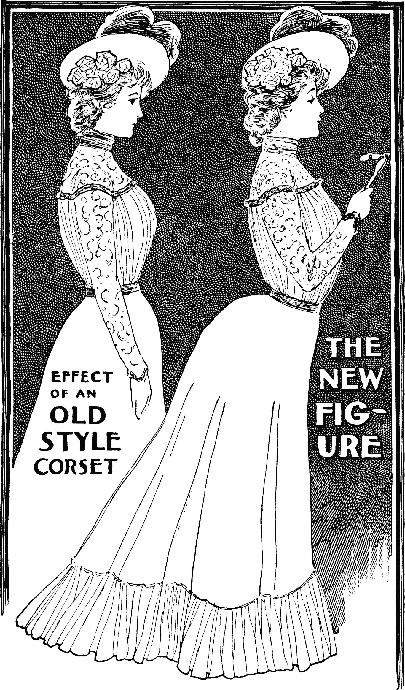 Illustration from the Ladies Home Journal, October 1900, contrasting the old Victorian corseted silhouette with the new Edwardian "S-bend" corseted silhouette.